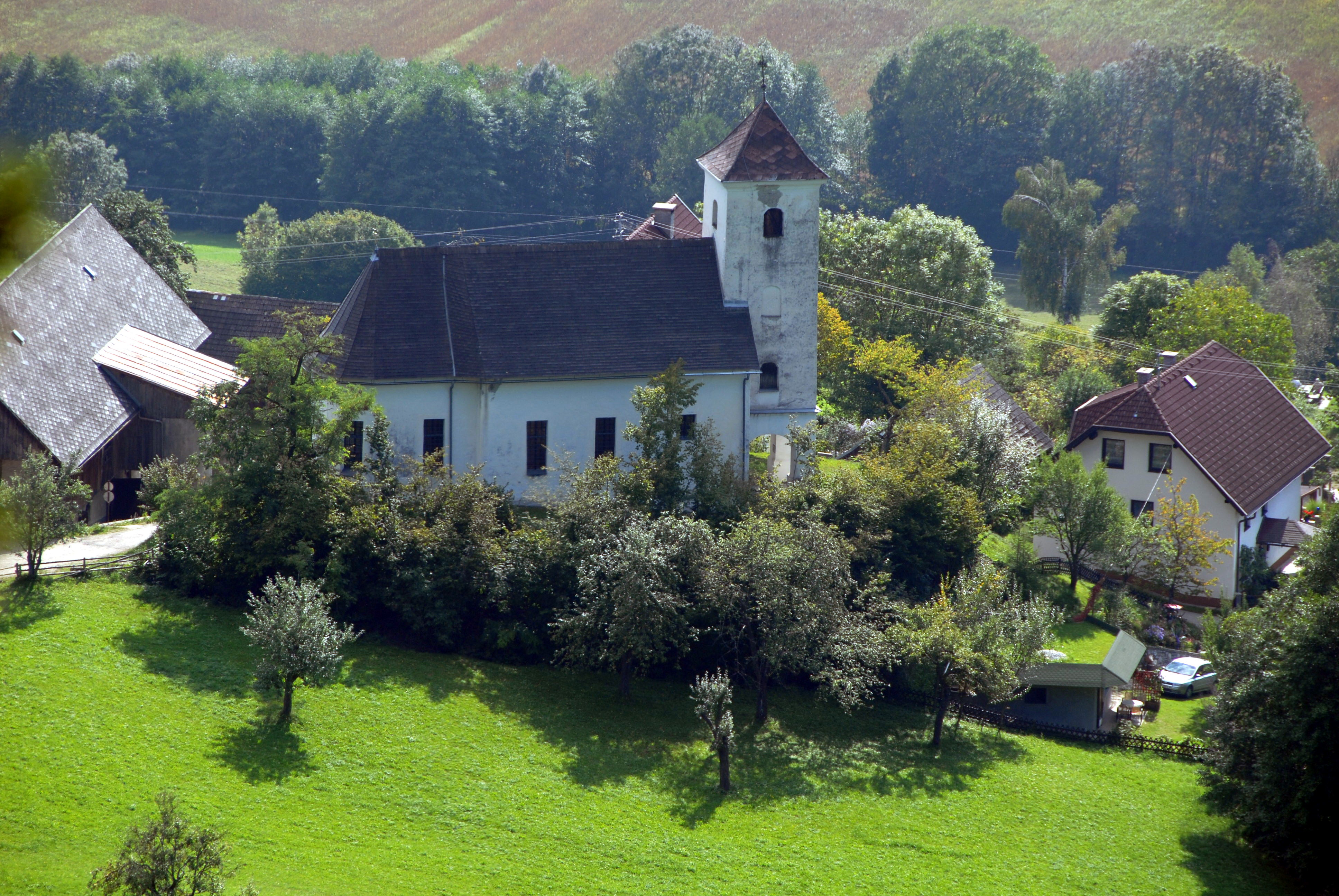 Subsidiary church Saint Rupert and Luzia at Rupertiberg, municipality Ludmannsdorf, district Klagenfurt Land, Carinthia, Austria, EU